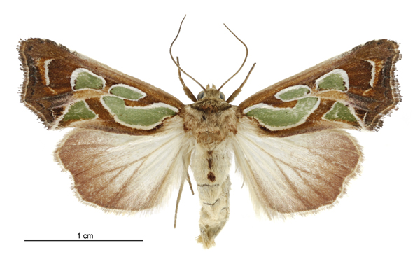 Female specimen of Cosmodes elegans photographed by Birgit E. Rhode, Landcare Research New Zealand Ltd.